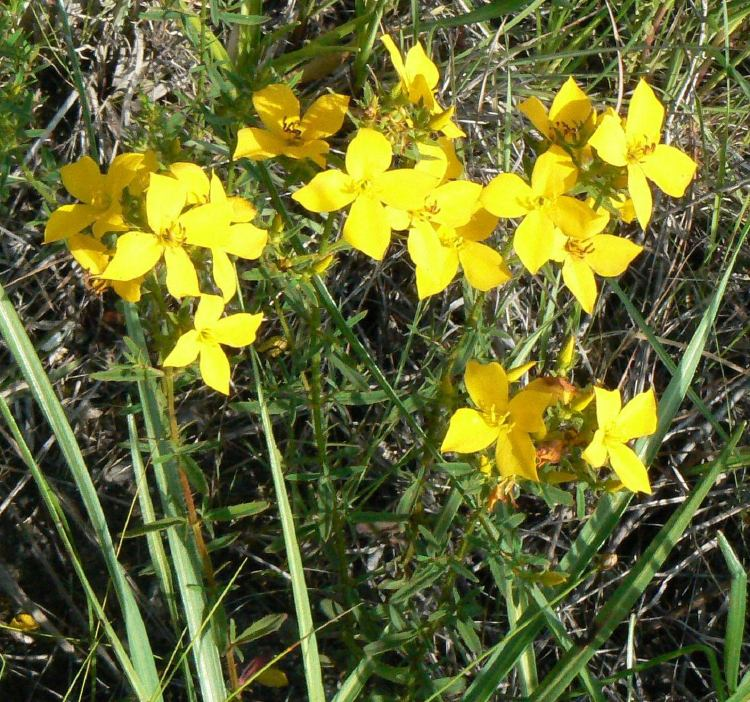 Rhexia lutea, Liberty Co., Florida.